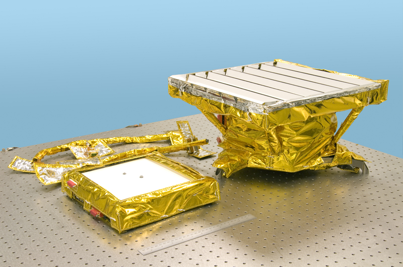 Left side of the Moon Mineralogy Mapper that was located on the Chandrayaan-1 lunar orbiter.